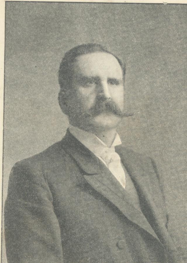 Photo of brazilian writer Adherbal de Carvalho (public domain) (1911)